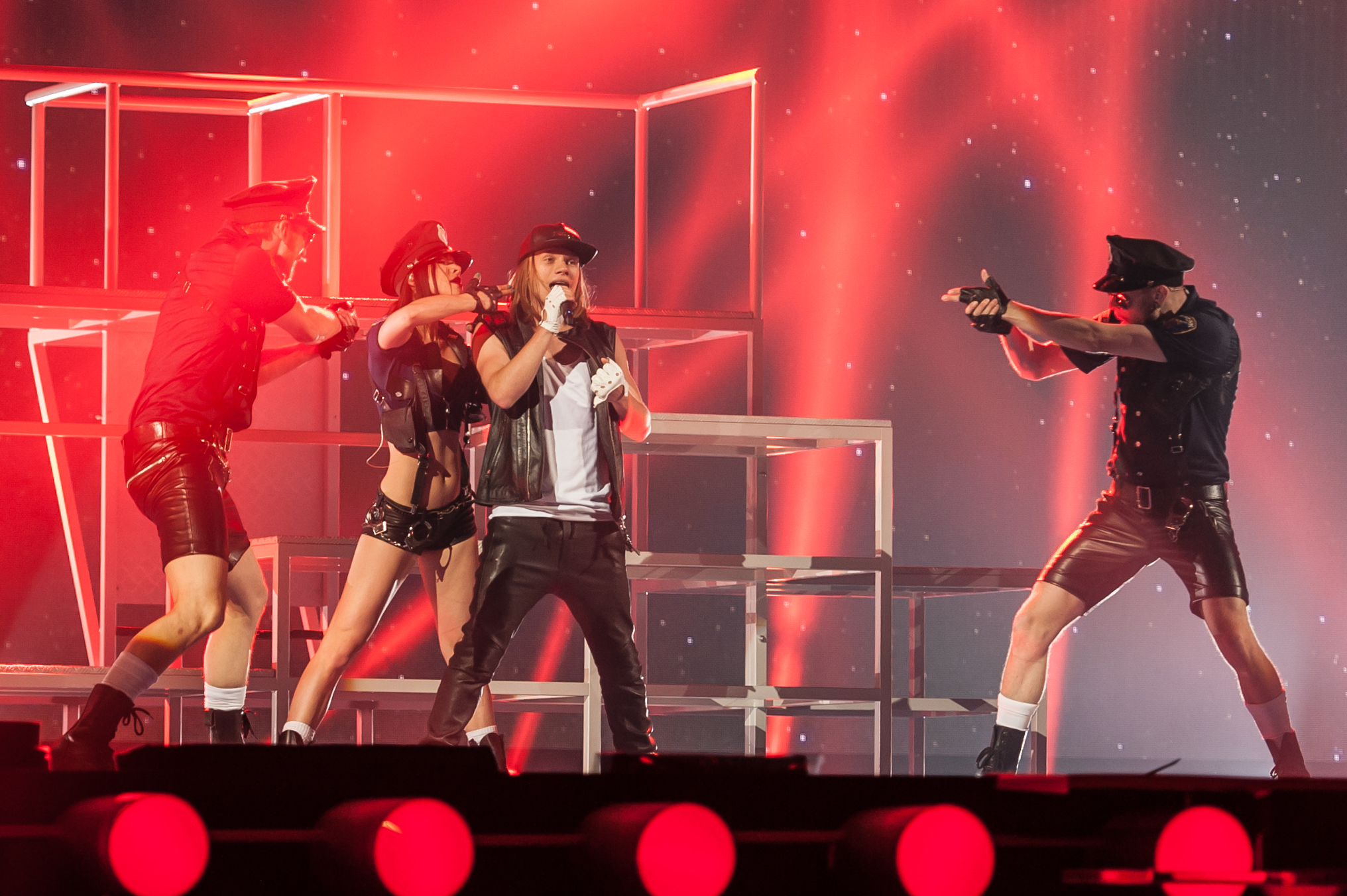 Eurovision Song Contest Vienna 2015: Eduard Romanyuta, Moldova